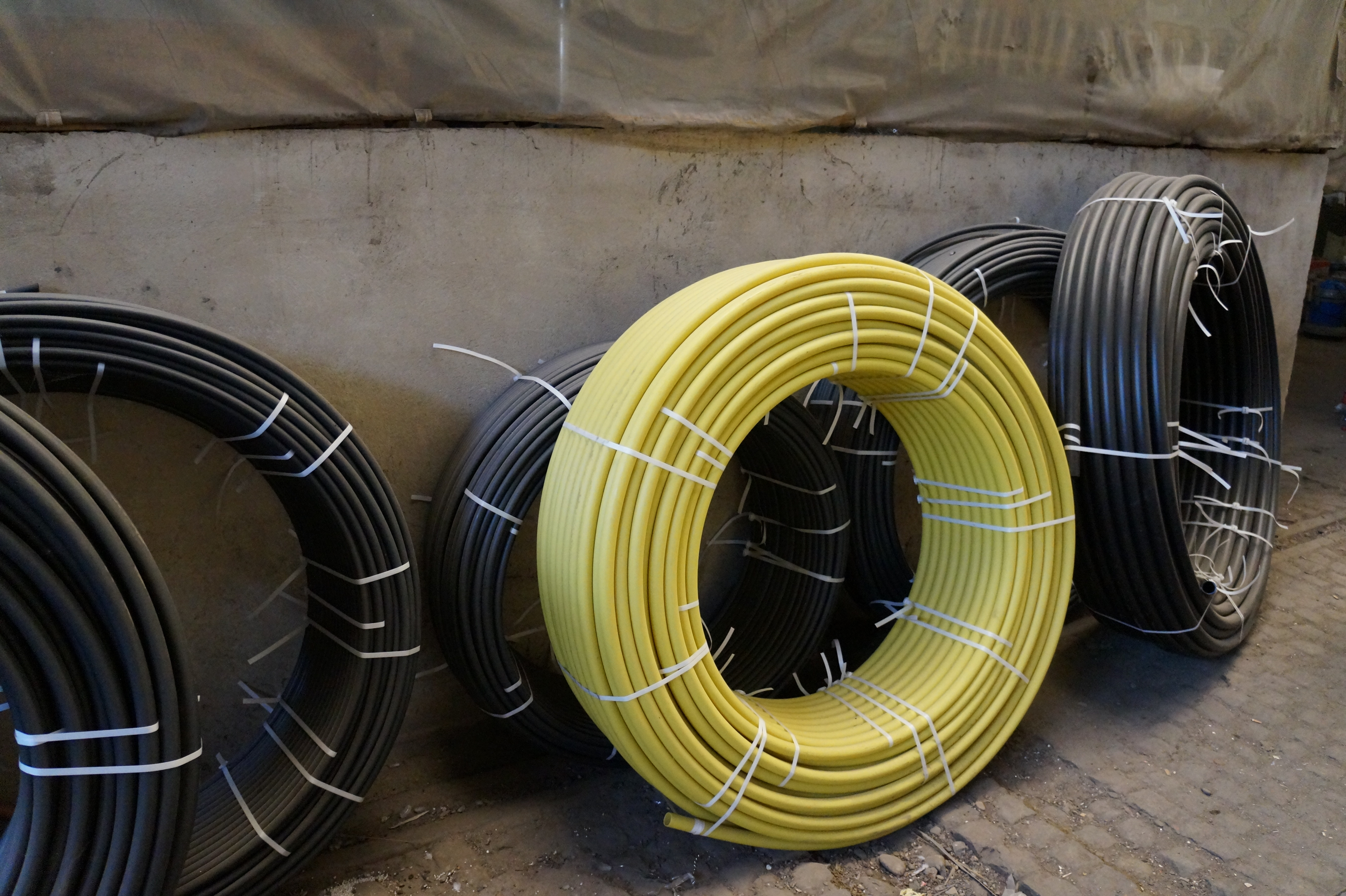 Ironworks / Ironmongery in Skopje, Macedonia